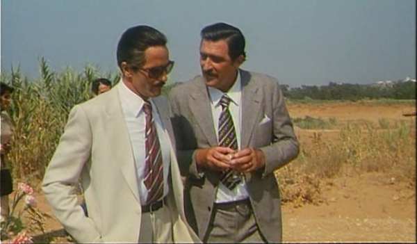 Screenshot from the film Corleone (1978)